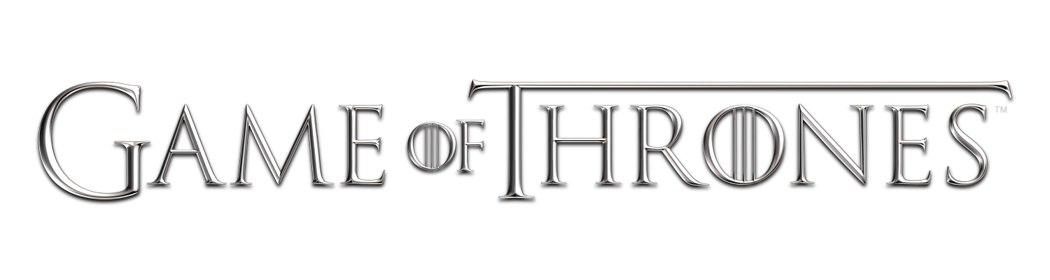 Logo for the role-playing game, Game of Thrones, developed by Cyanide